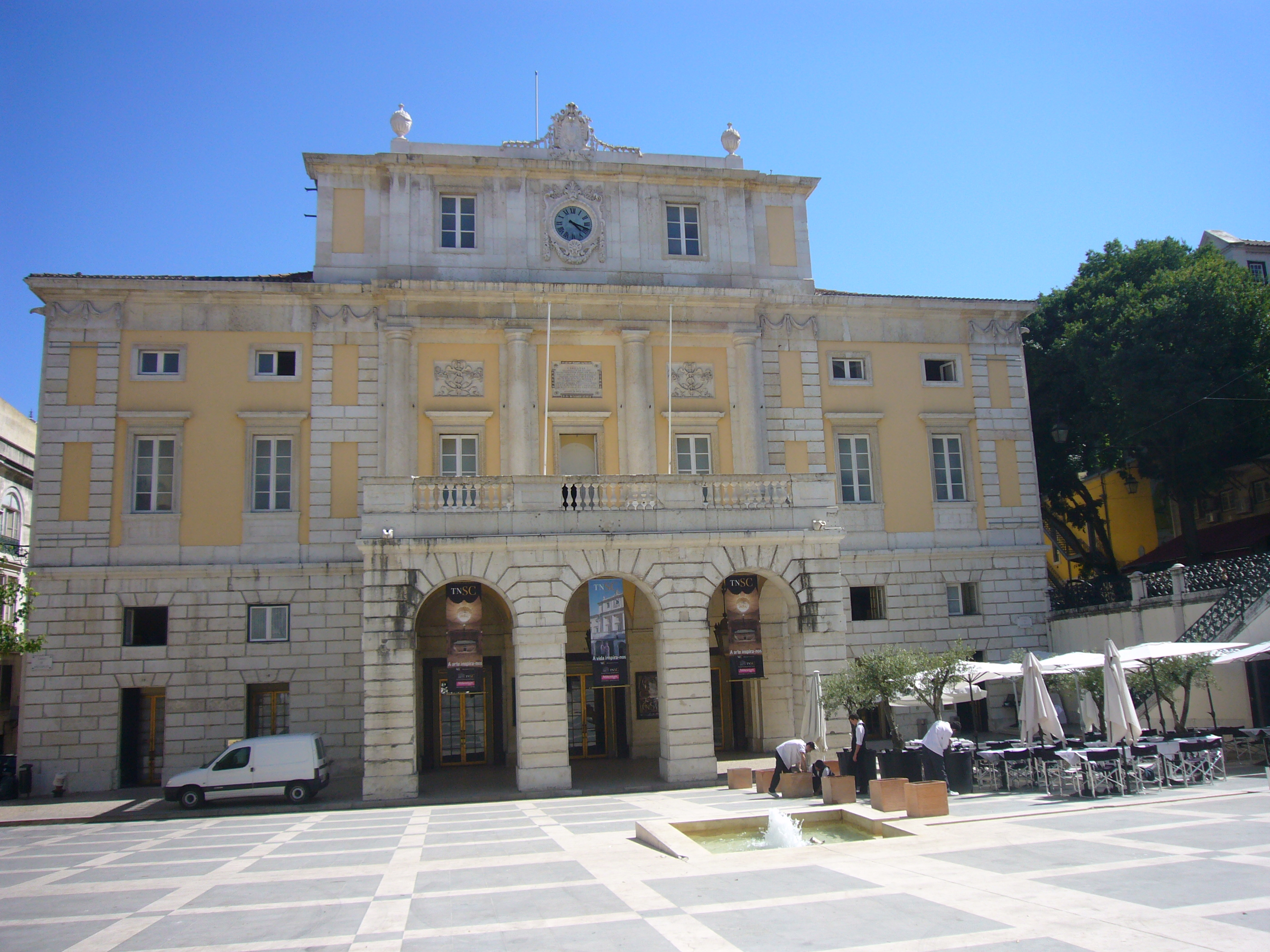 São Carlos Theater is Lisbon's opera house - Neoclassical style